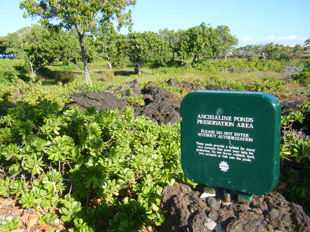 Anchialine Ponds in Waikoloa Beach, Hawaii